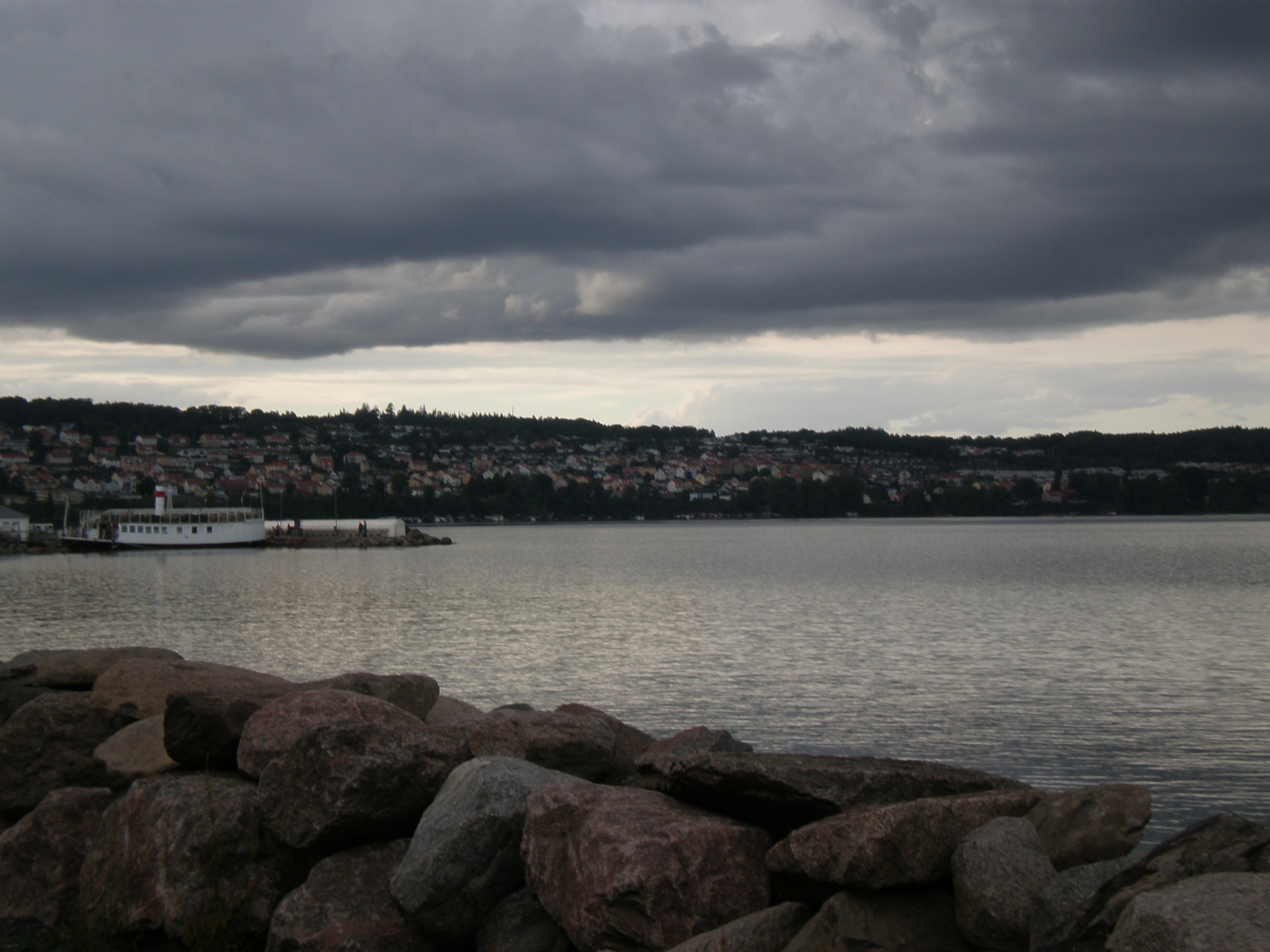 A view of Jonkoping and Vattern a cloudy day